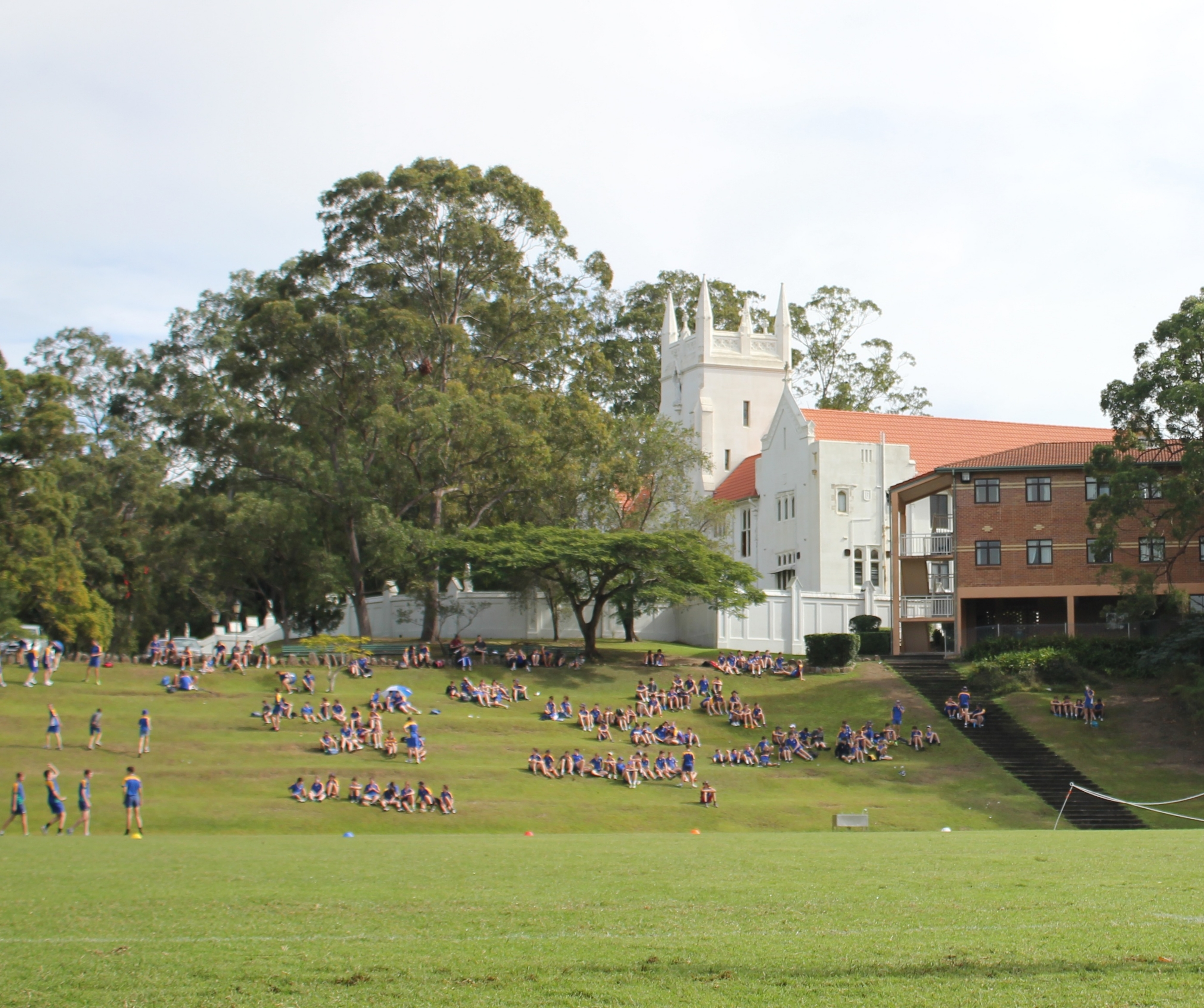 Marist College Ashgrove: view of The Tower from Cameron Oval